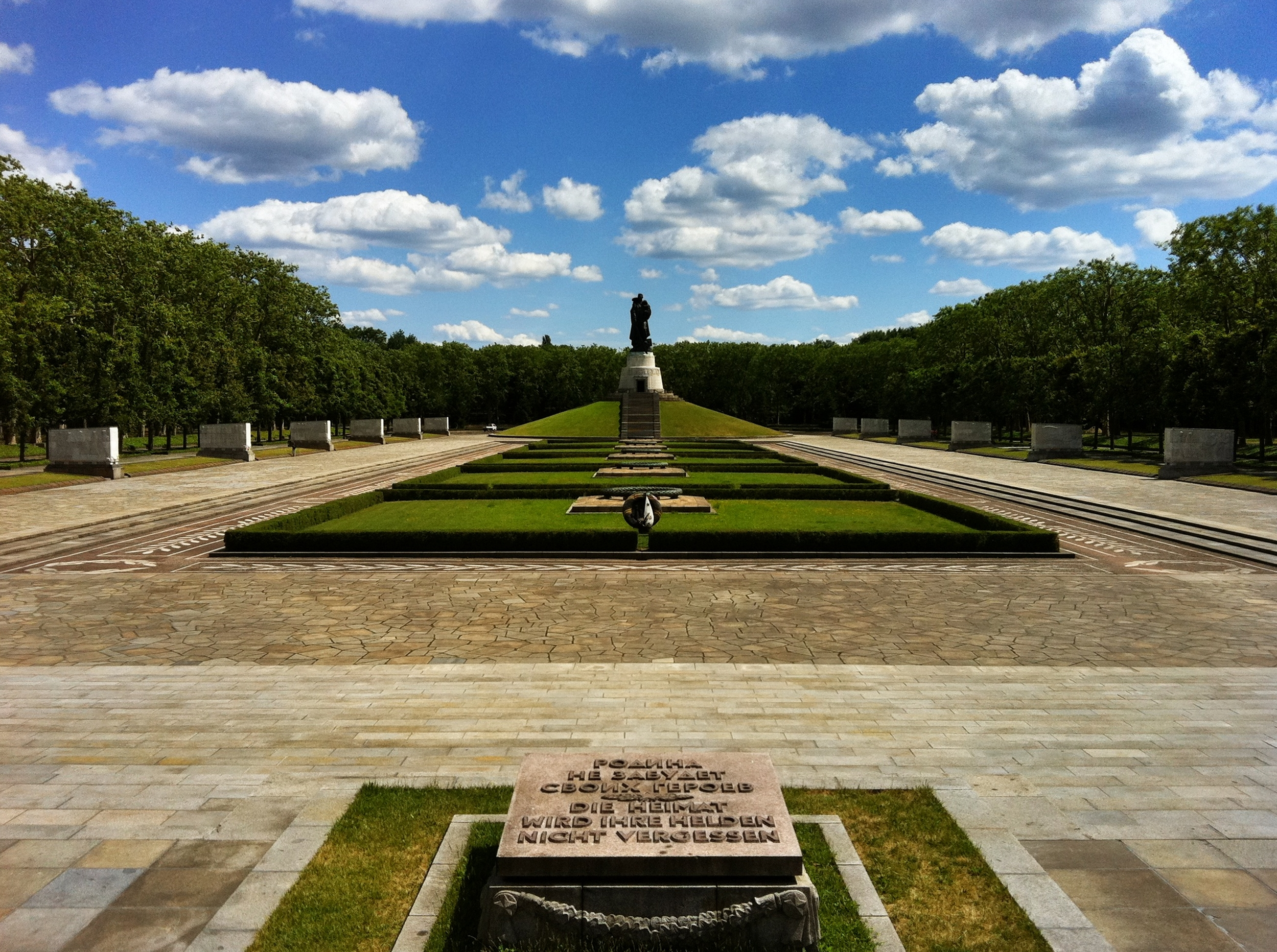 Sovjet war memorial site in Treptower Park, Berlin